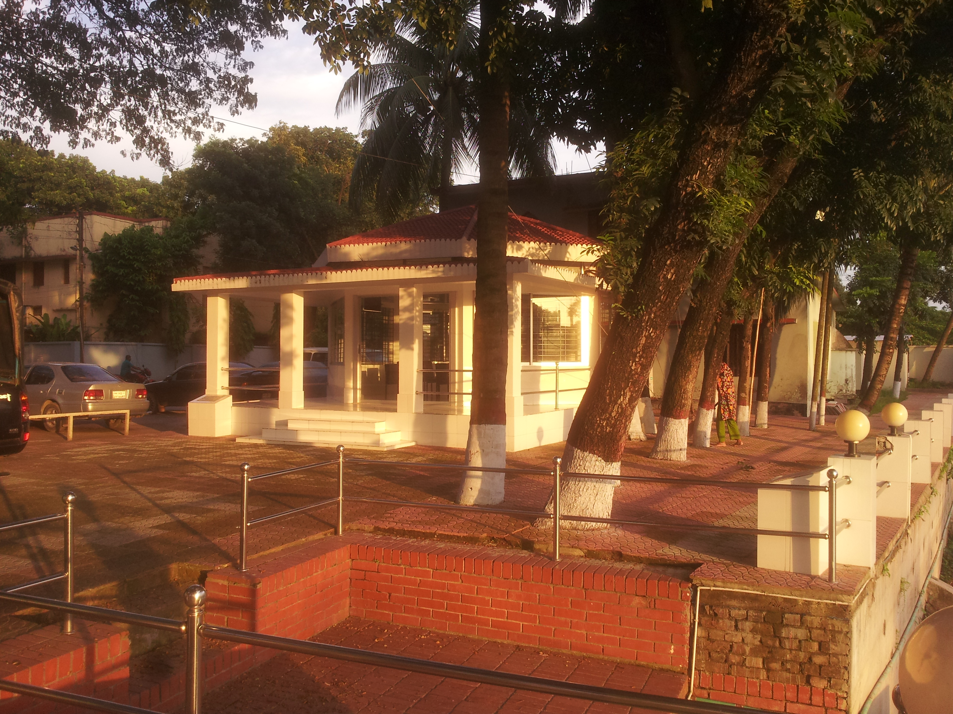 Savar Thana compound, Dhaka, Bangladesh.